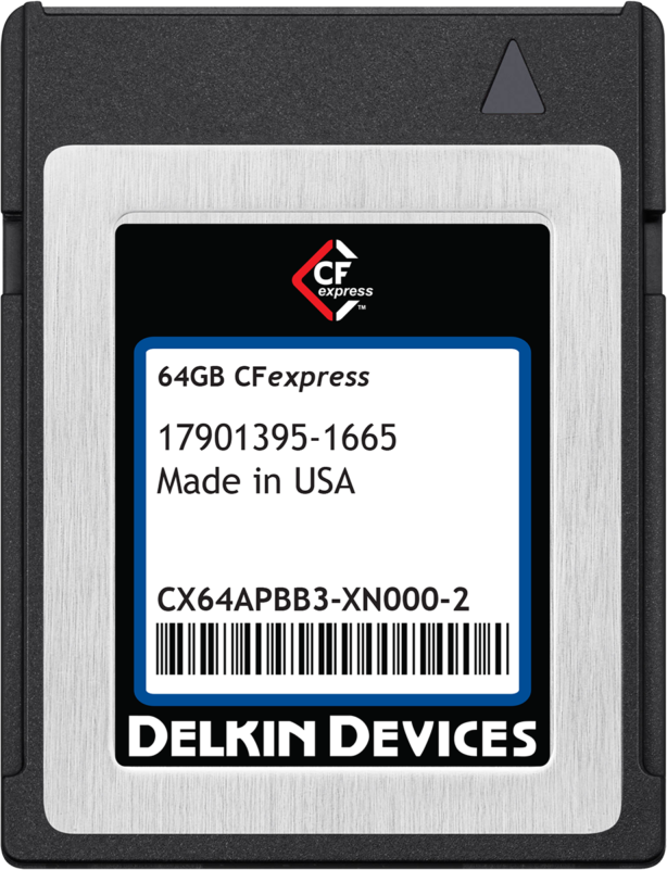 64GB Delkin CFexpress card